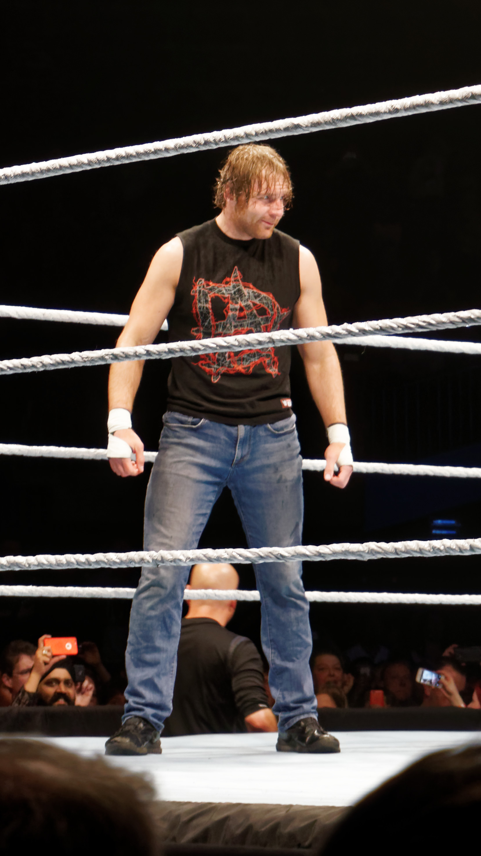 WWE Live WrestleMania Revenge Dean Ambrose def. Triple H